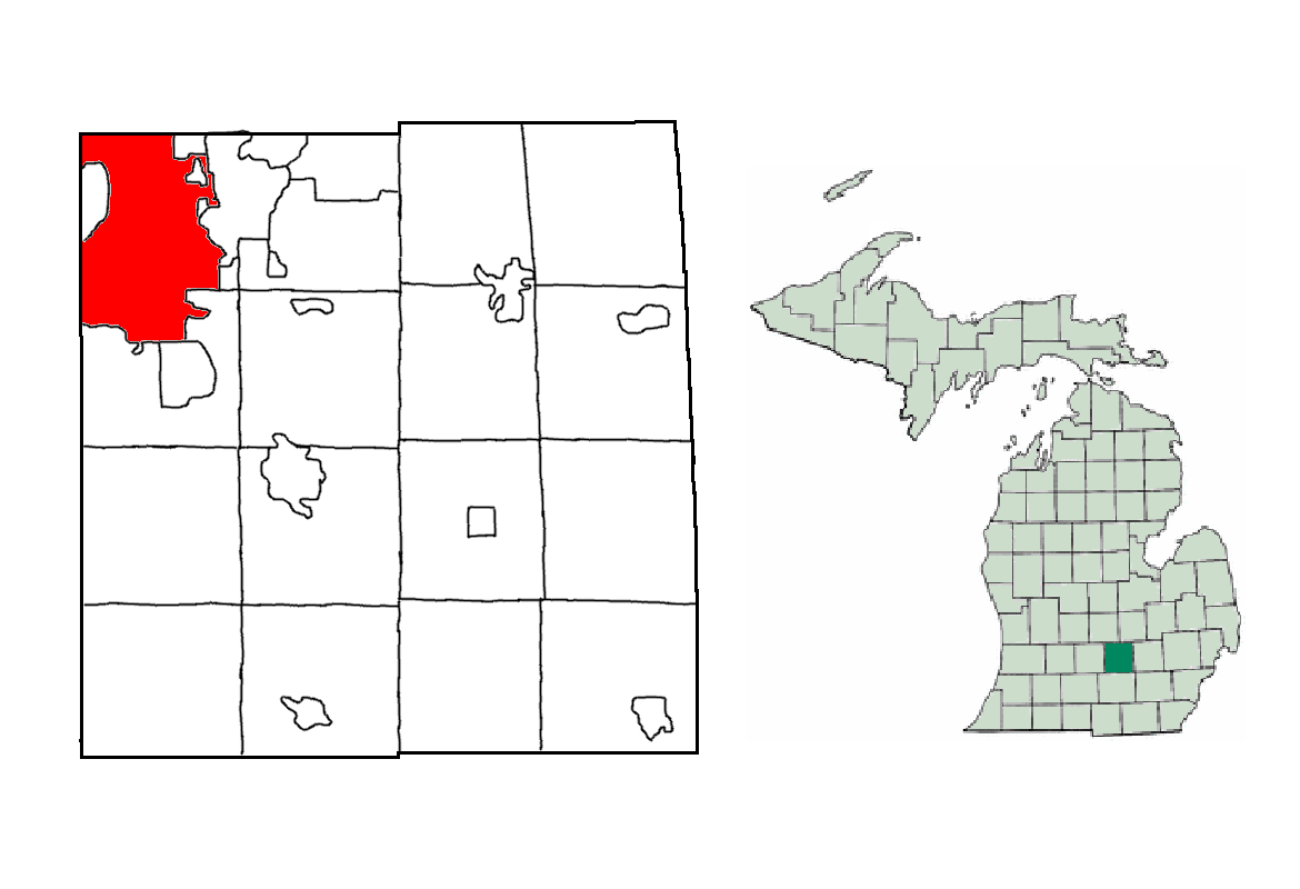 The location of Lansing, Michigan. Made using US Census Bureau Data.